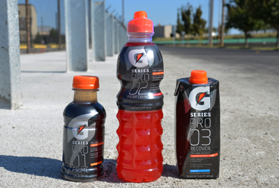 G Series PRO